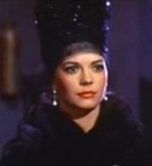 Cropped screenshot of Natalie Wood from the trailer for the film Gypsy.